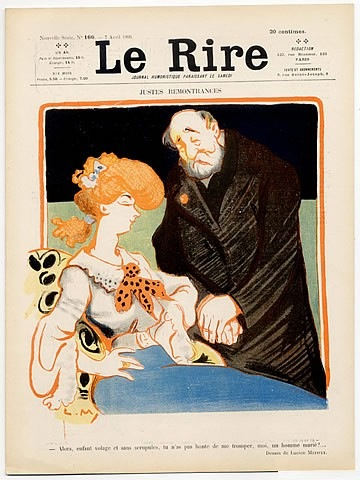 Front cover of Le Rire issue 166 : 'Justes remontrances' by Paul Balluriau (1860-1917).